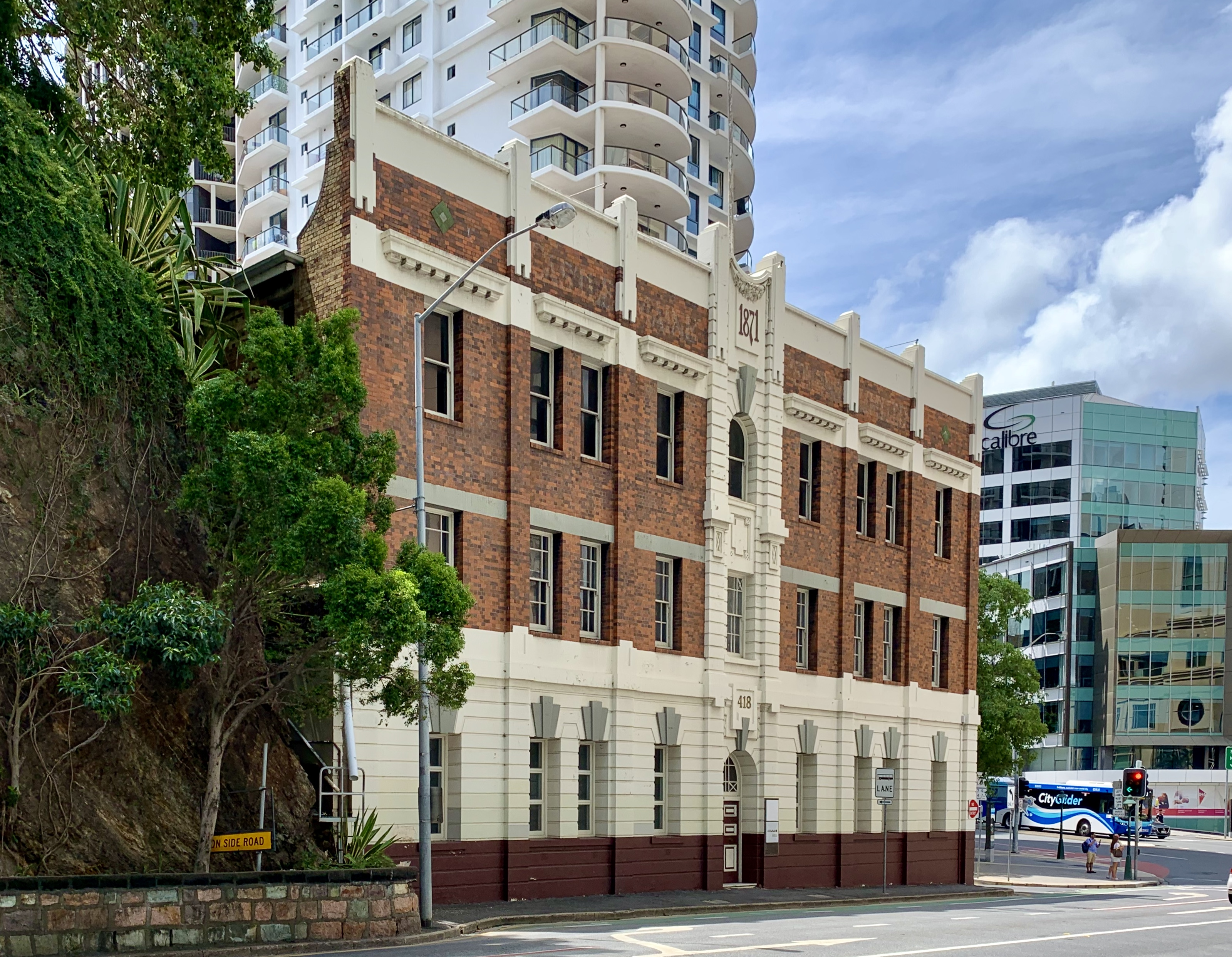 Castlemaine Perkins Building, Brisbane, Queensland in February 2020